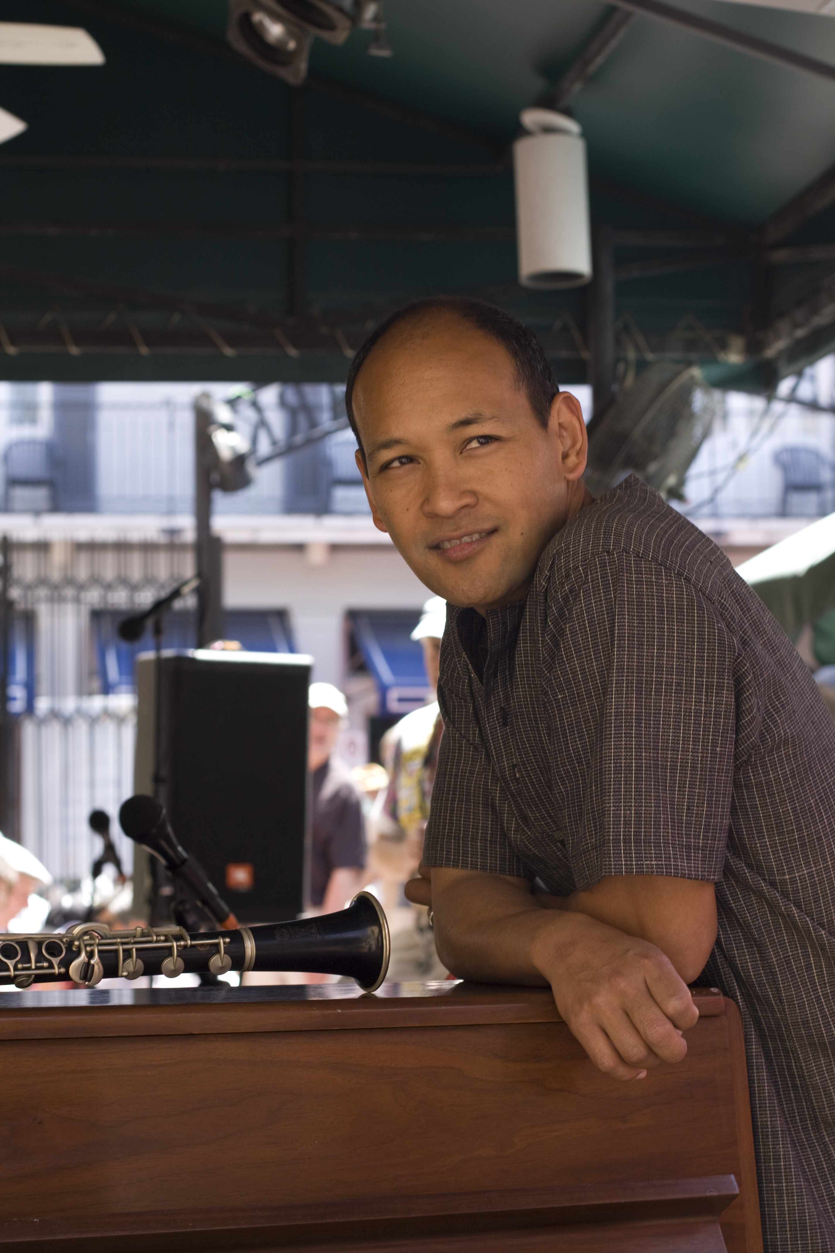 Clarinetist Evan Christopher at French Quarter Festival 2010, New Orleans.